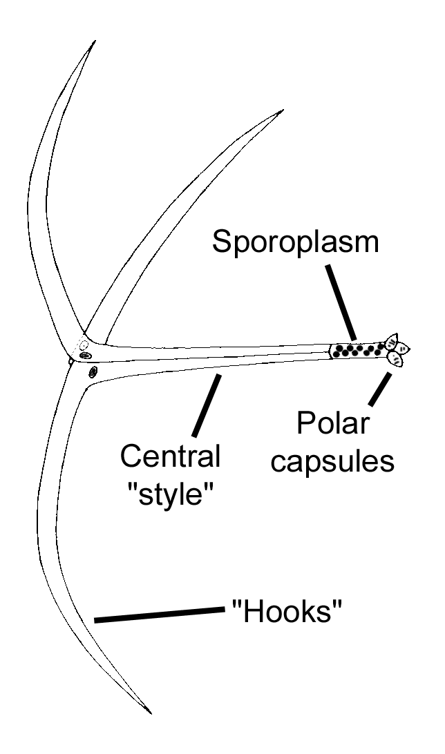 An actinomyxon spore of Myxobolus cerebralis. This work has been released into the public domain by its author, Anilocra. This applies worldwide. In some countries this may not be legally possible; if so: Anilocra grants anyone the right to use this work for any purpose, without any conditions, unless such conditions are required by law. Converted from Image:Actinomyxon.jpg.jpg by John Owens (talk).